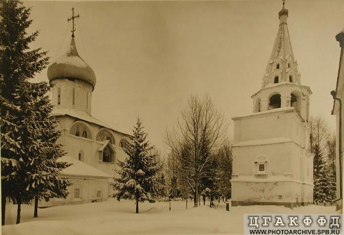 Krasnorholmsky Antoniev Monastery in Tverakaya Oblast